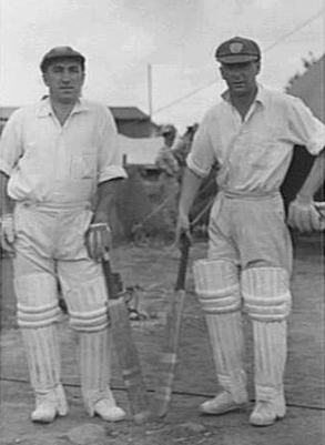 ATHERTON, QLD. 1944-10-13. THE OPENING BATSMAN FOR MCCABE'S, AN RAAF TEAM. V. JACKSON (2, right), TOP SCORER FOR THE TEAM AND SECOND TOP SCORER FOR THE DAY, SCORED 53 RUNS, AND J. CHEGWYN (1). THE CRICKET MATCH AGAINST ARMY WAS ARRANGED BY DEPUTY ASSISTANT DIRECTOR AMENITIES, HEADQUARTERS FIRST CORPS.